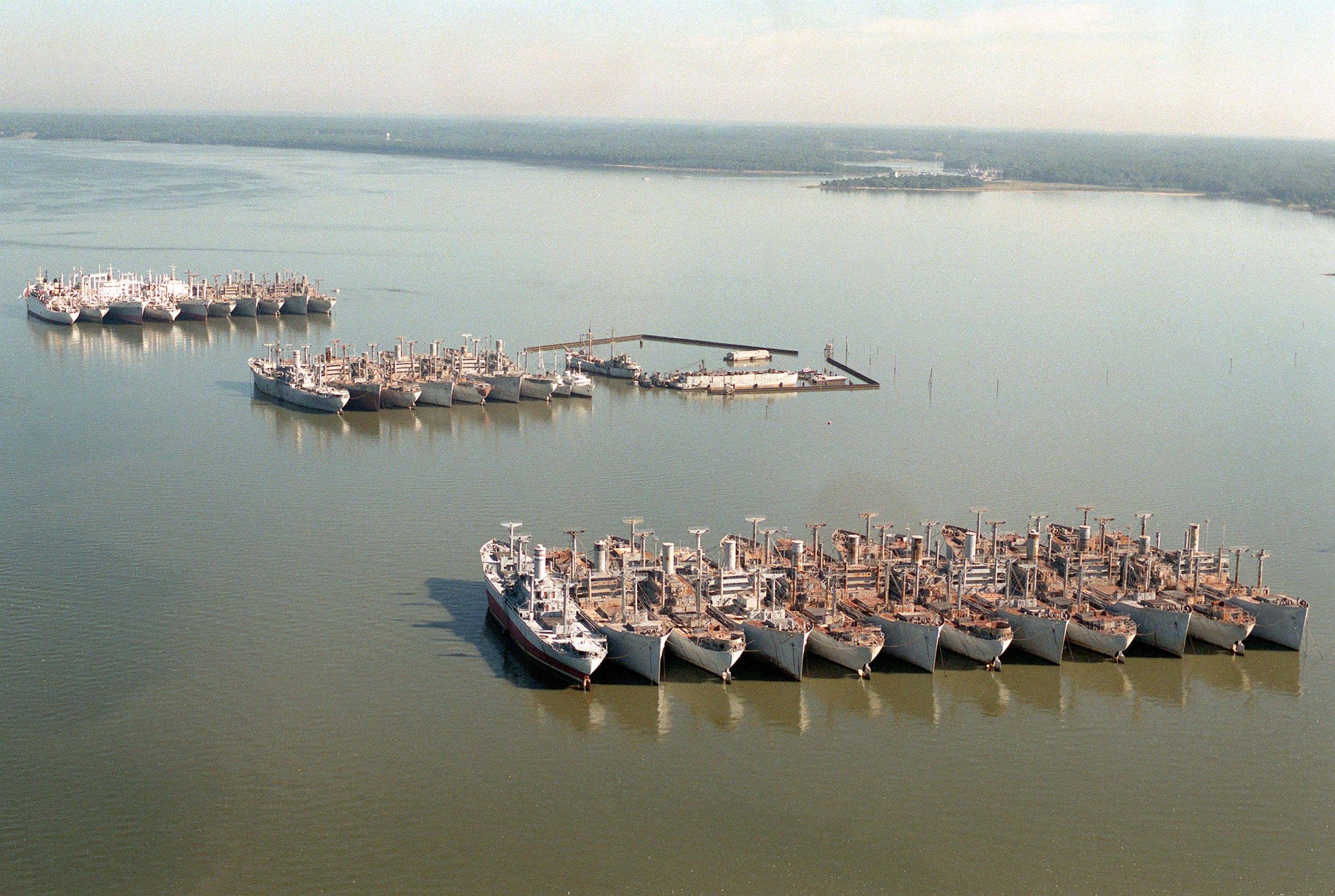 An aerial view of some of the ships of the U.S. National Defense Reserve Fleet's (NDRF's) Ready Reserve Force tied up on the James River, Virginia (USA), on 25 September 1990.